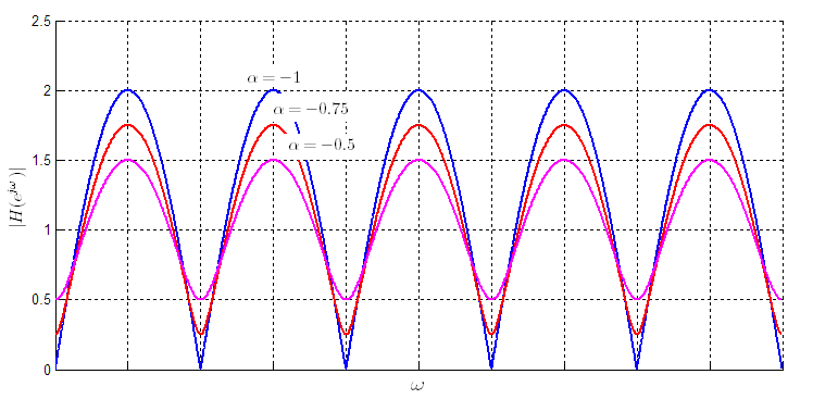 Magnitude response of feedforward comb filter for negative values of